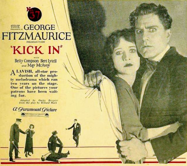 Ad for the American film Kick In (1922) with Bert Lytell and Betty Compson, on the cover of the December 9, 1922 Exhibitor's Trade Review.